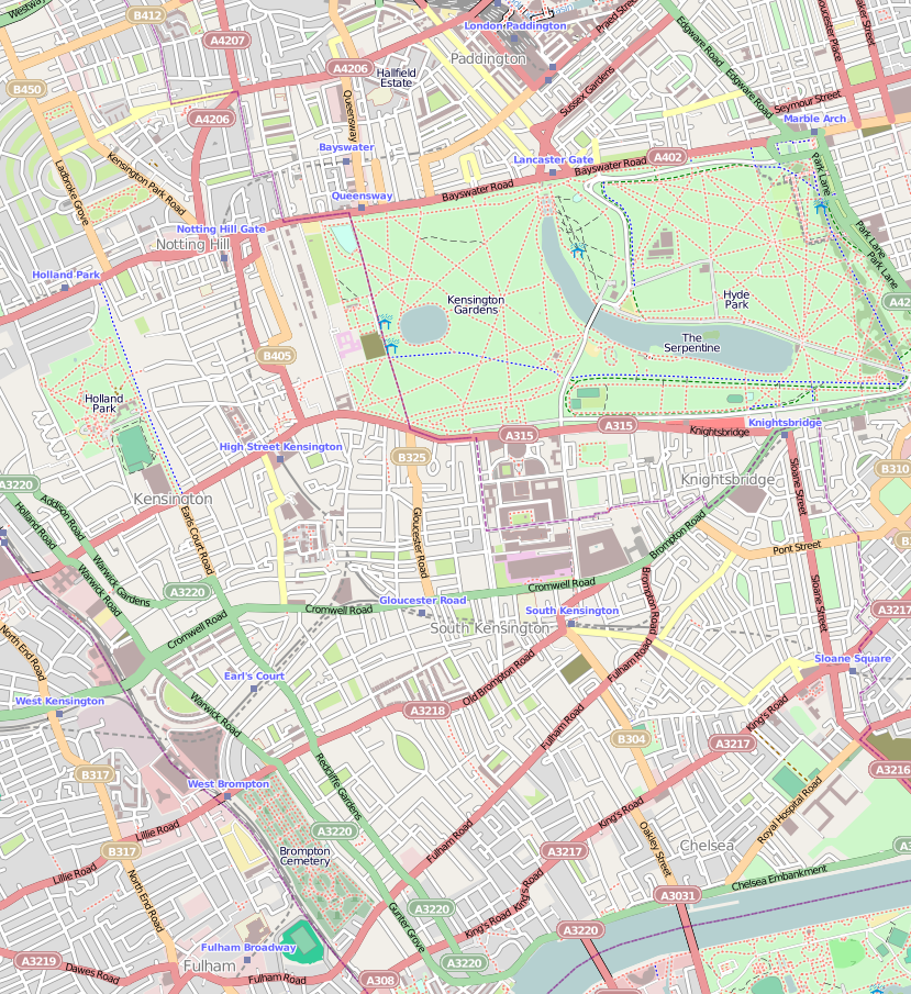 Map of Kensington, London Geographic limits of the map: N: 51.5186° S: 51.4796° W:- 0.21° E:- 0.1526°